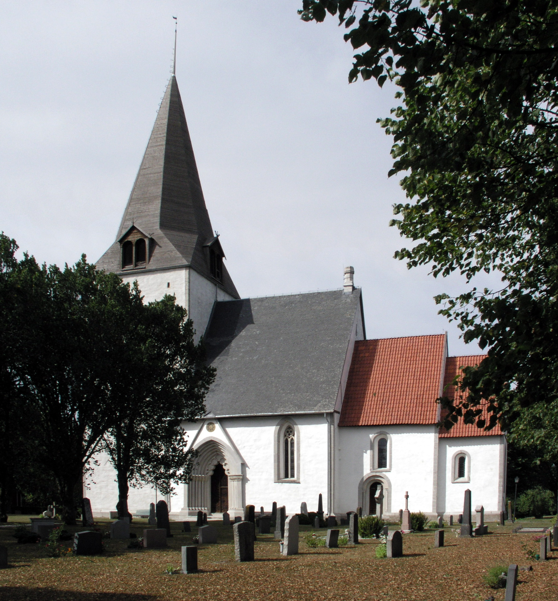 Barlingbo church, Gotland, Sweden